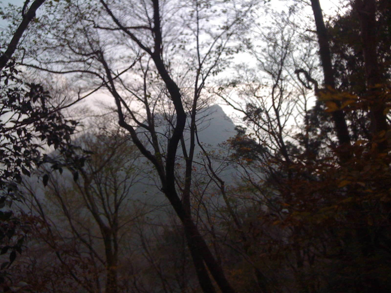 This mountain is located in Saga prefecture,Japan.